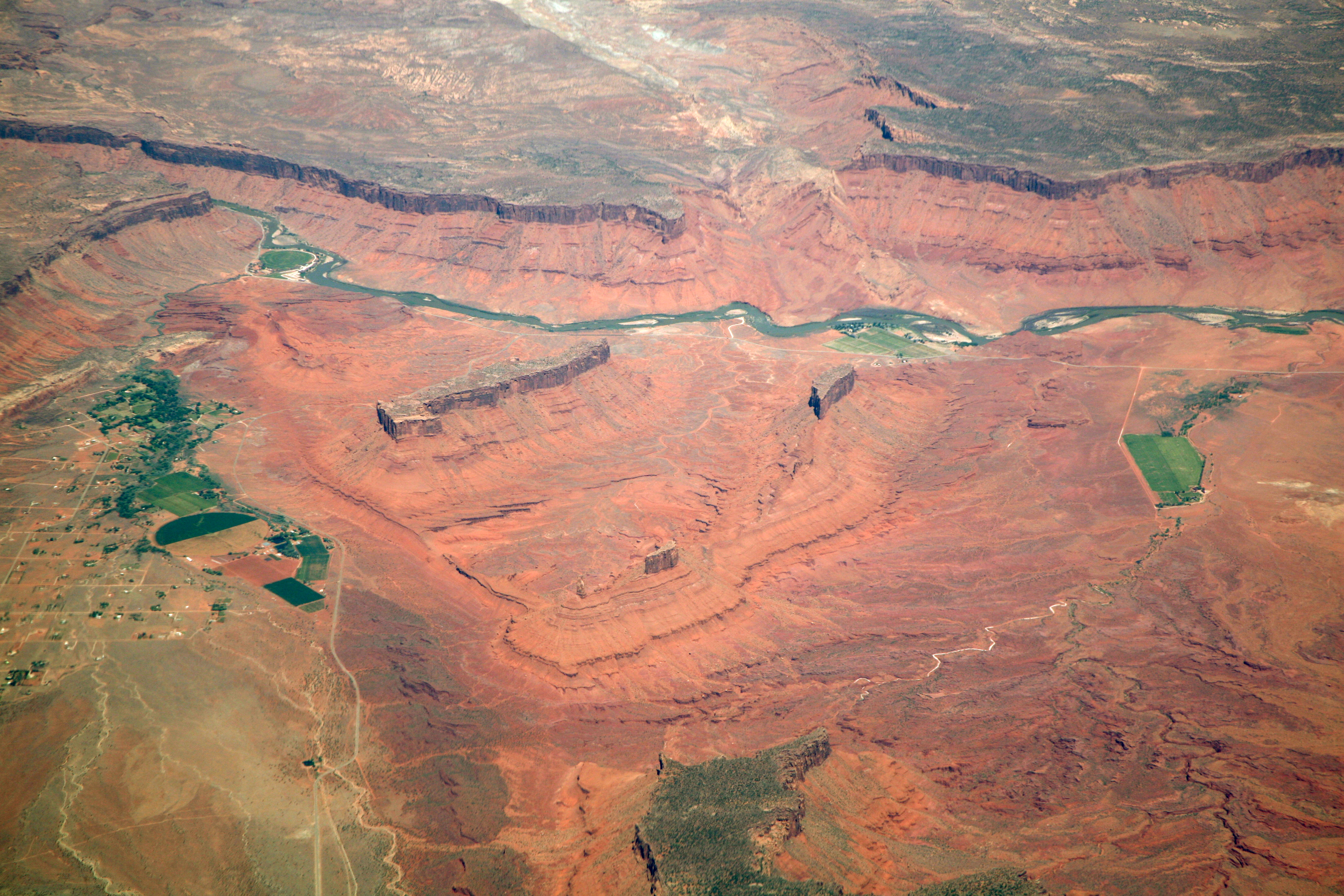 Castle Valley, Utah, just south of the Colorado River. Original Flickr photo has geographical ID annotations.